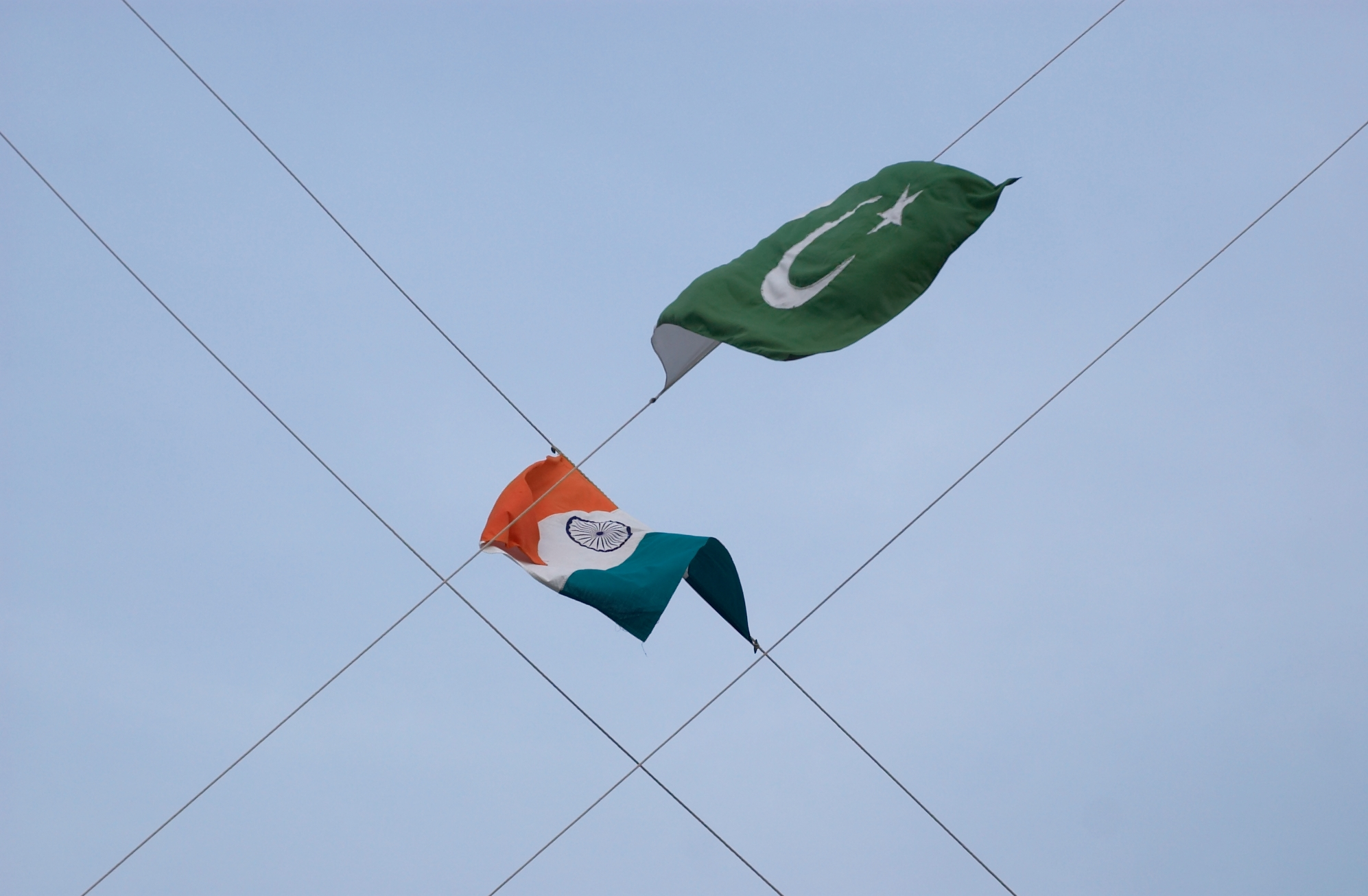 At the end of the guard changing ceremony at the Pakistan-India border the respective flags are lowered.